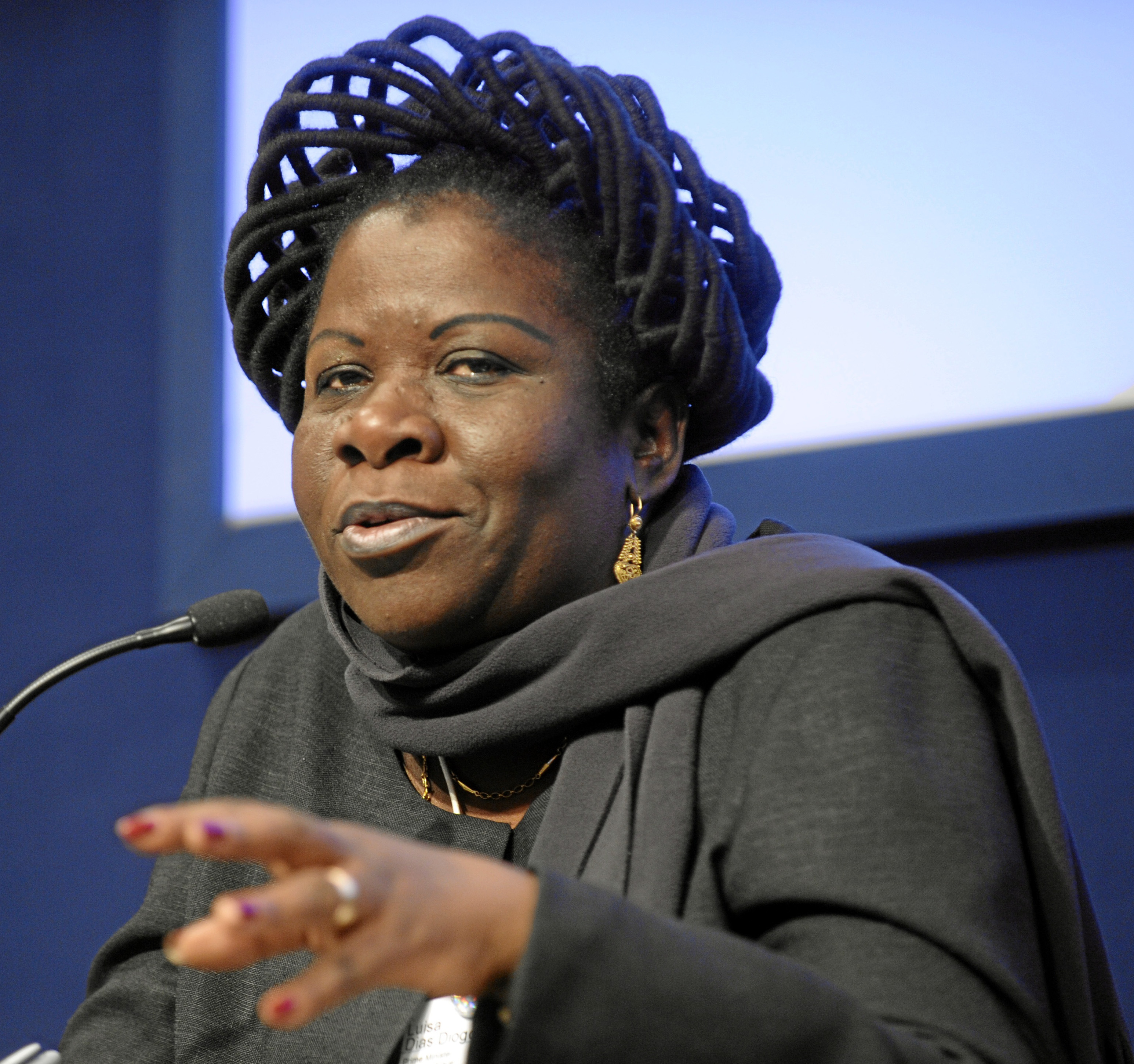 DAVOS-KLOSTERS/SWITZERLAND, 31JAN09 - Luisa Dias Diogo, Prime Minister of Mozambique captured during the session 'Completing the Malaria Mission' at the Annual Meeting 2009 of the World Economic Forum in Davos, Switzerland, January 31, 2009. Copyright by World Economic Forum by Michael Wuertenberg